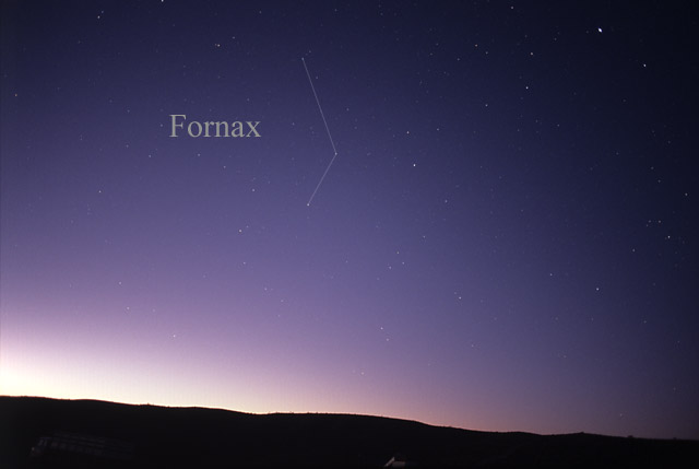 Photo of the constellation Fornax, the Furnace